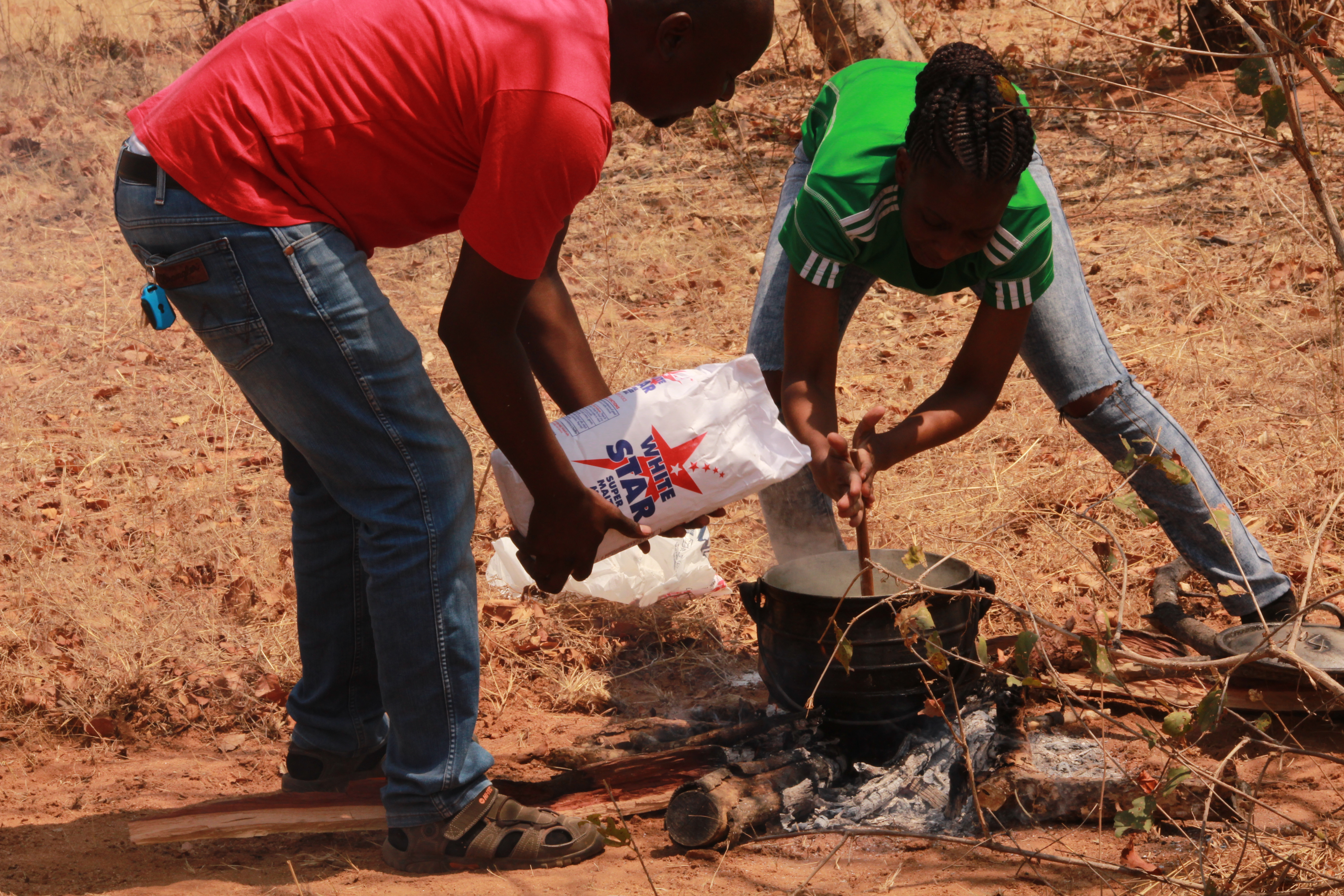 People cooking Pap (food) (Phaleche) 7